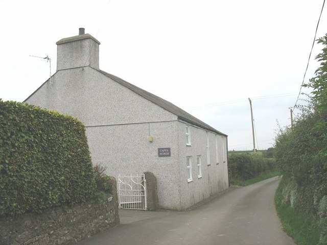 Capel Horeb, Penmynydd Situated on a quiet lane, away from the main road, Capel Horeb has been written off as a converted chapel not only on Geograph but also by the OS. It's not hard to see why, it does not look in any way like the traditional Welsh Victorian chapel. But Horeb,a Congregationalist chapel, which my paternal grandparents used to attend, is still very much in business. The nearest end of the building is the chapel house. The whole building completed in 1828 cost £180. The Independent or Congregationalist cause (Annibynwyr, in Welsh) in the Penmynydd area dates back to the 1740s.